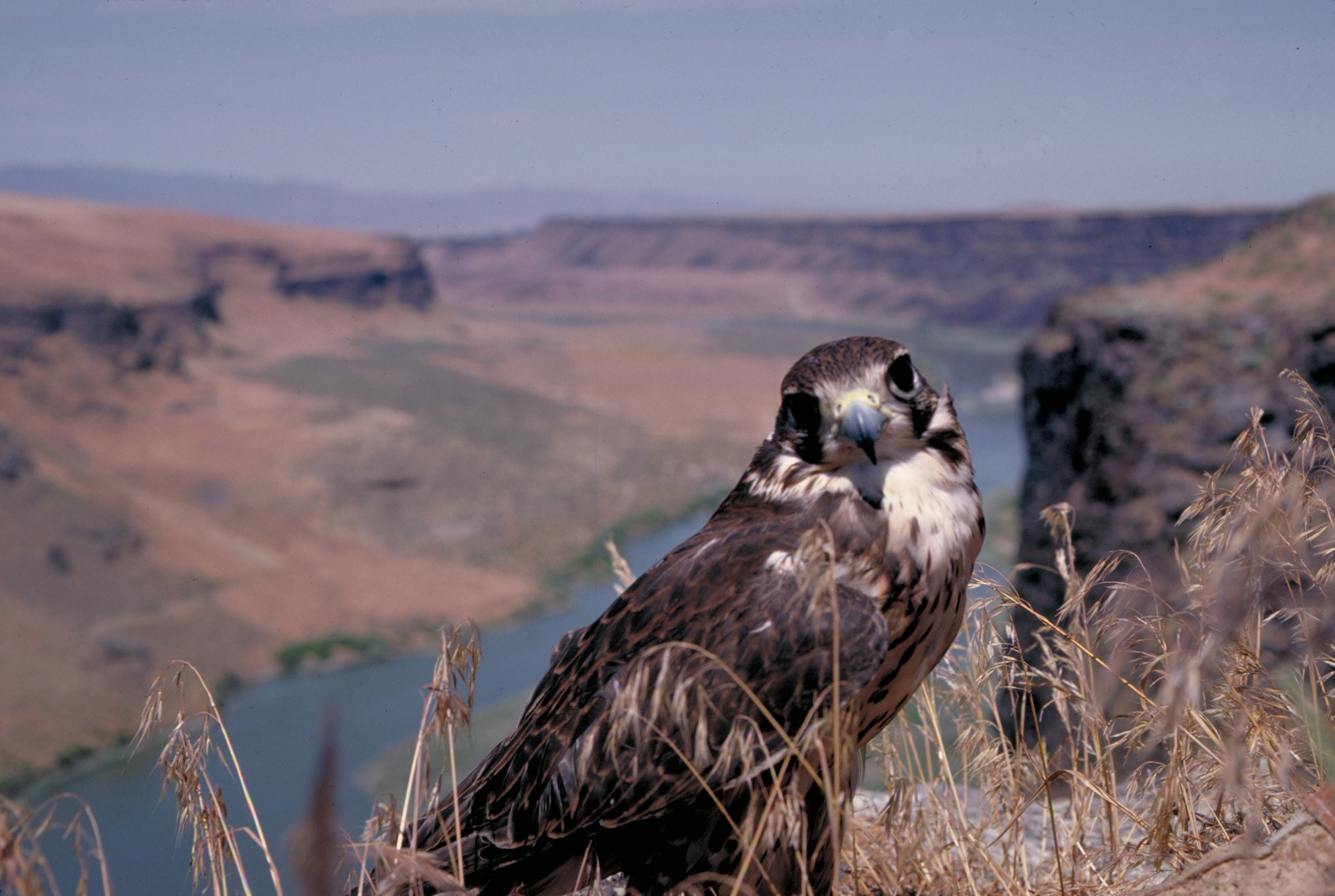 Prarie Falcon at Nelson Snake River Birds of Prey National Conservation Area; photo by: Larry Ridenhour, BLM